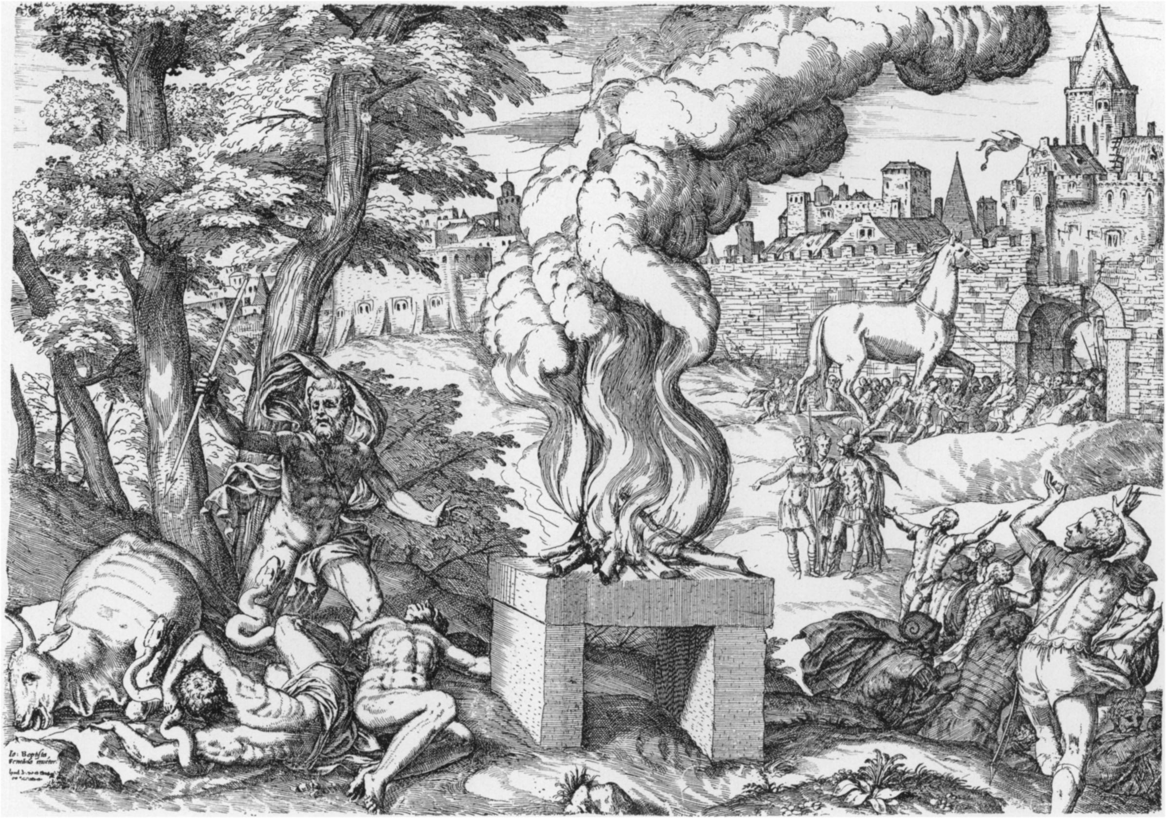 Copper engraving made by Giovanni Battista Fontana: Cheval de Troye.